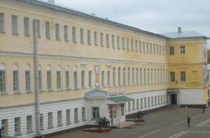 Rodionovskij-institut